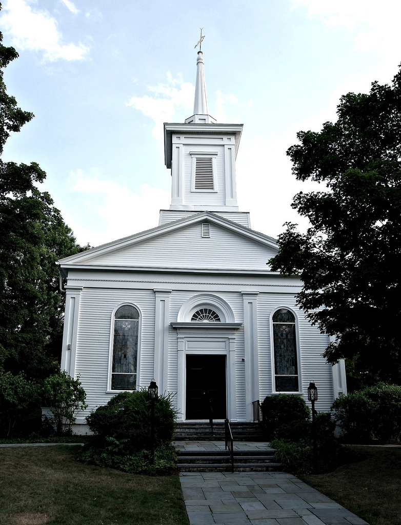 First Congregational Church, Rehoboth, Massachusetts